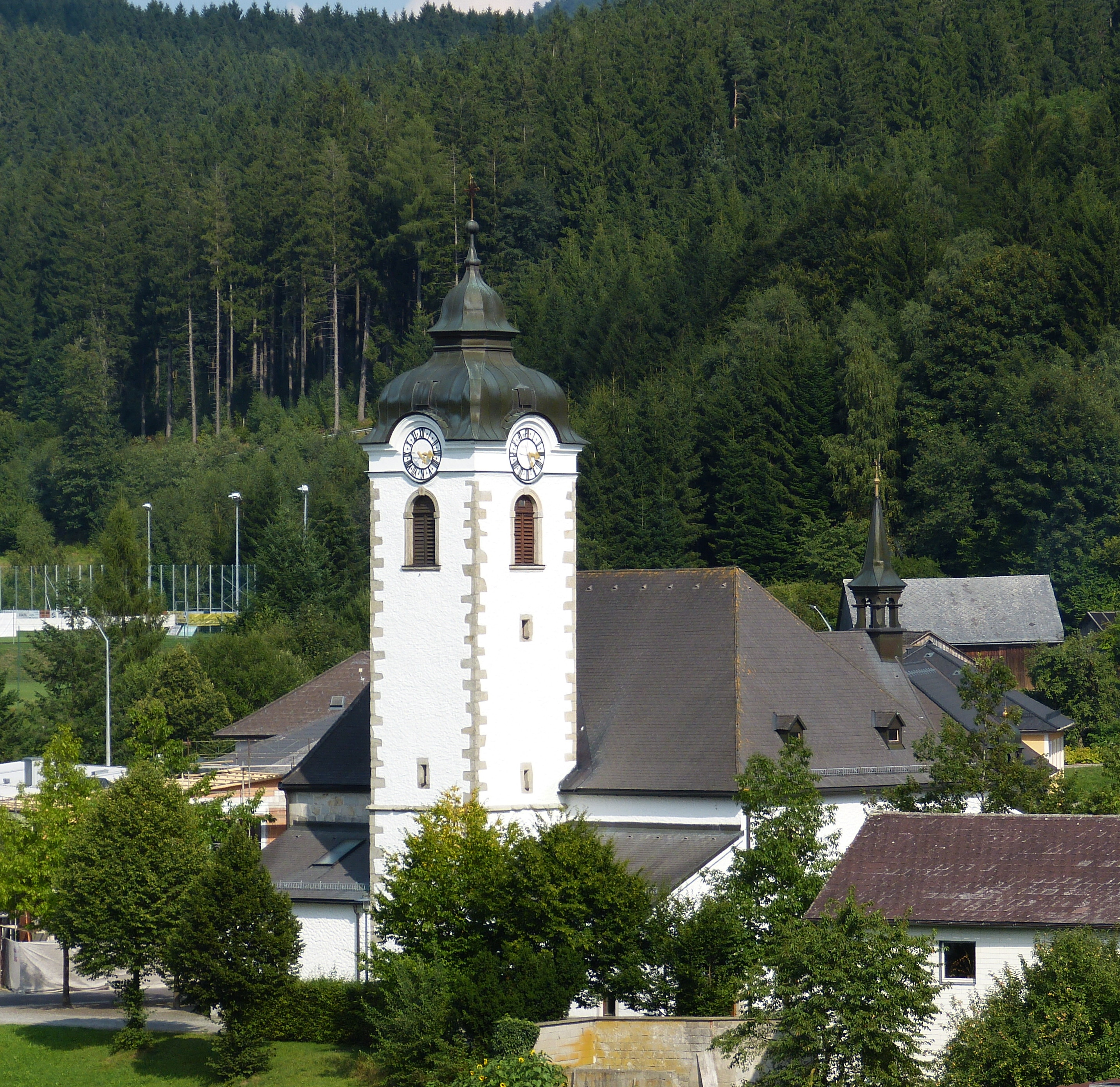 Vorderweißenbach ( Upper Austria ). Ss. Peter and Paul parish church: Gothic tower ( 14th/15th century )